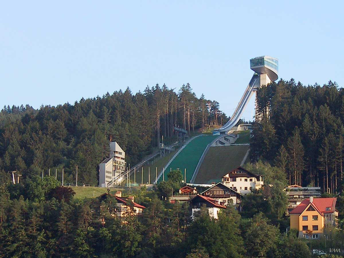 View of Bergisel ski jumping hill in Innsbruck (Austria) from the North